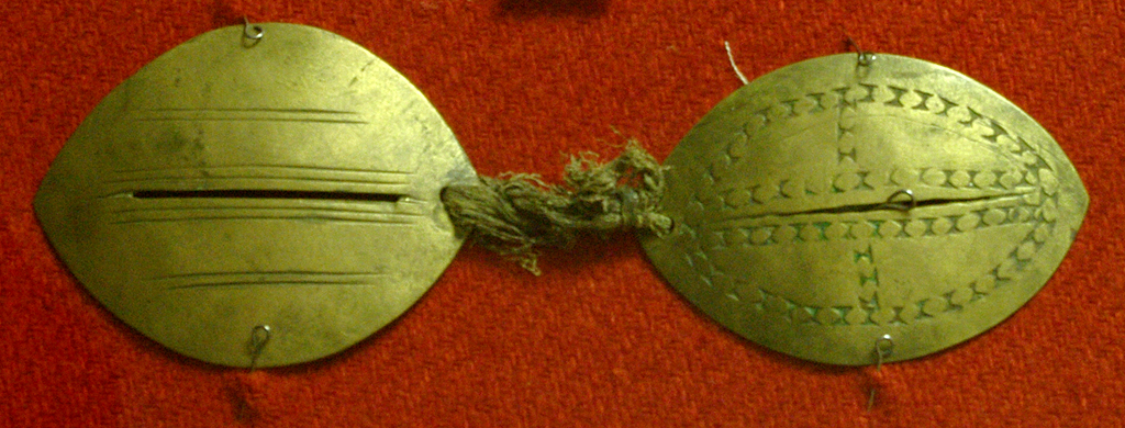 Goggles of nenets people